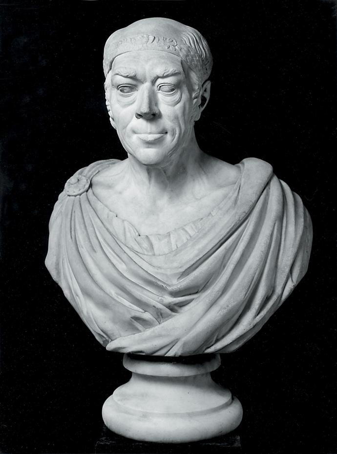 Bust of Frederick North, 5th Earl of Guilford by Ioannis Baptistis Kalosgouros, 1827.